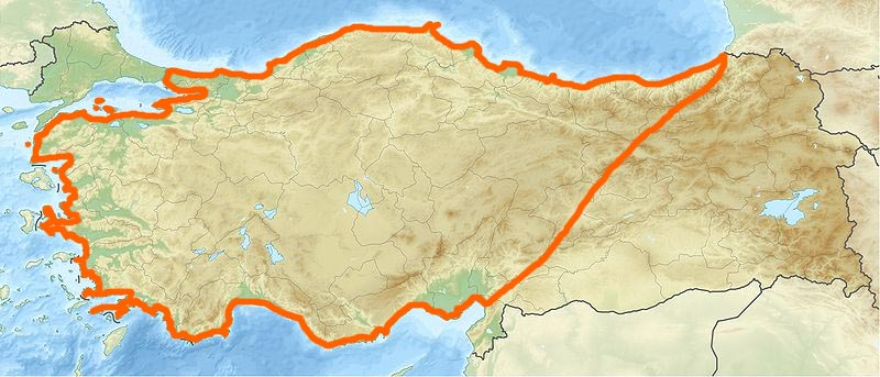 Anatolian peninsula